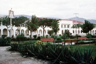 The Palacio do Governo faces the Dili waterfront.